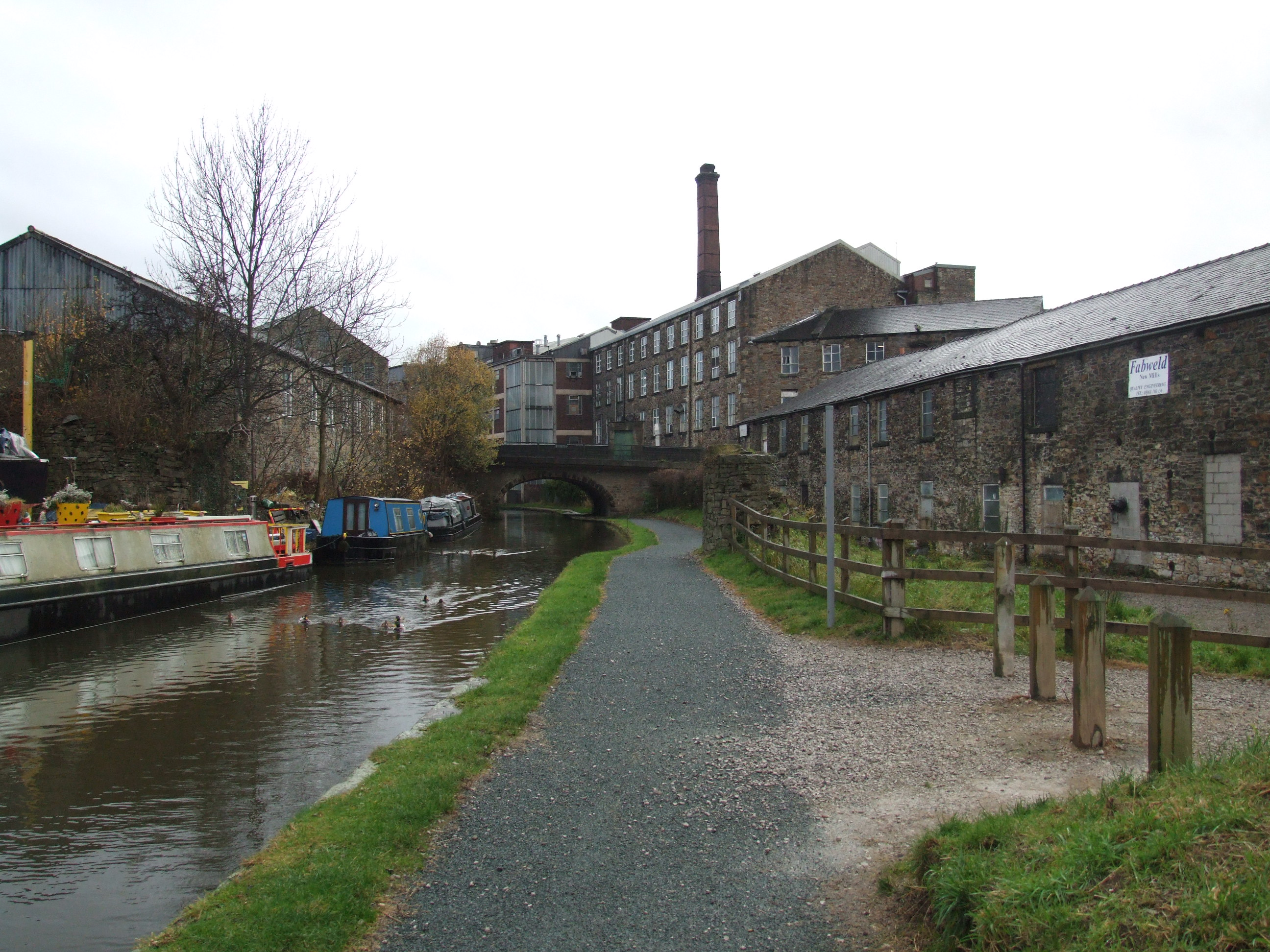 Newtown, Derbyshire is the part of New Mills in the Peak District, on the south bank of the Peak Forest Canal. Most is now in Derbyshire, some remains in Cheshire.